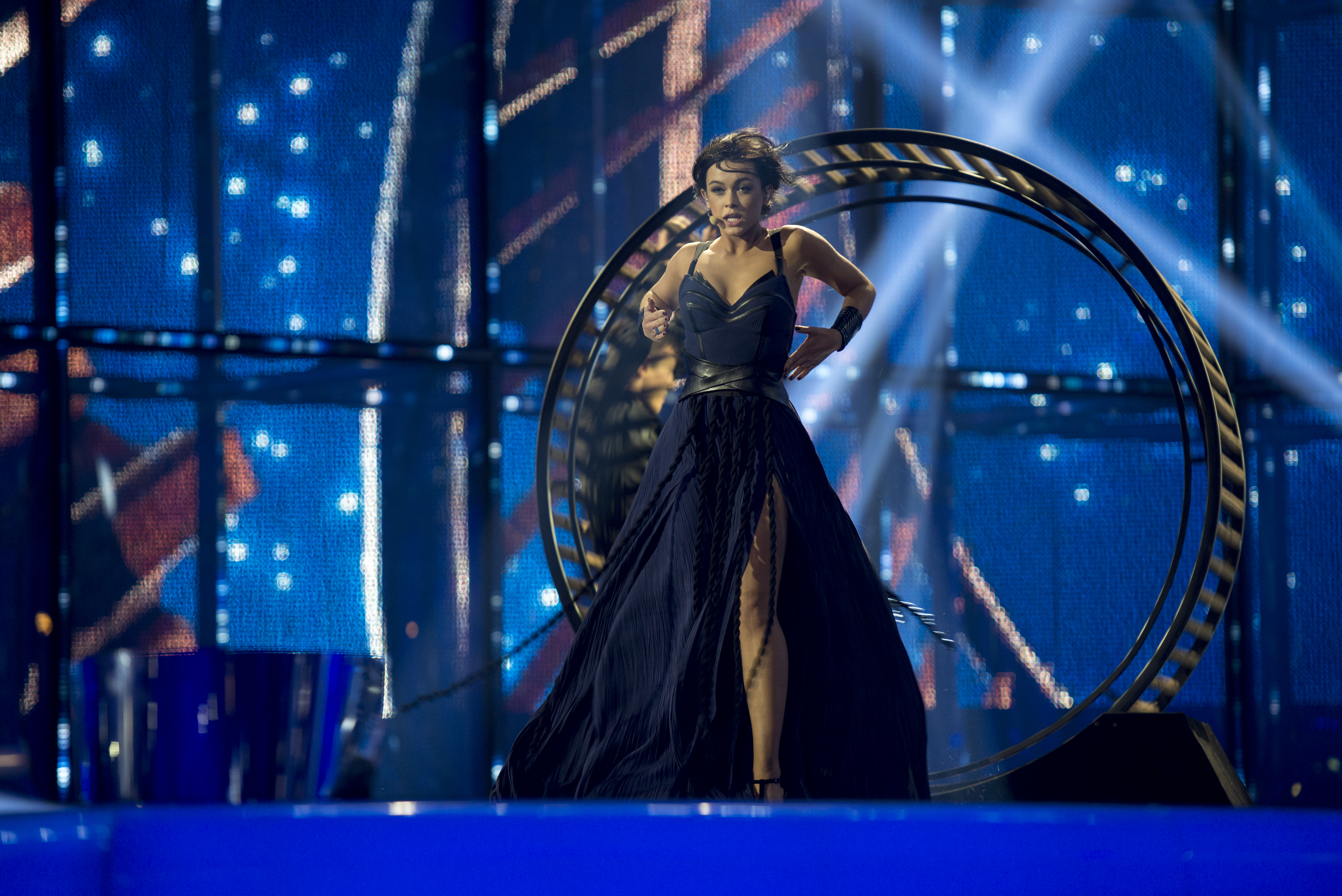 Mariya Yaremchuk representing Ukraine with the song "Tick-Tock" during the first dress rehearsal of the first semi final of the Eurovision Song Contest 2014 Copenhagen. (Help translate this text)